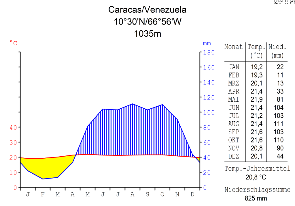 climate chart in the format by Walther and Lieth, metric, °Celsisus and millimeters, made with Geoklima 2.1